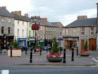 Market Square, Navan